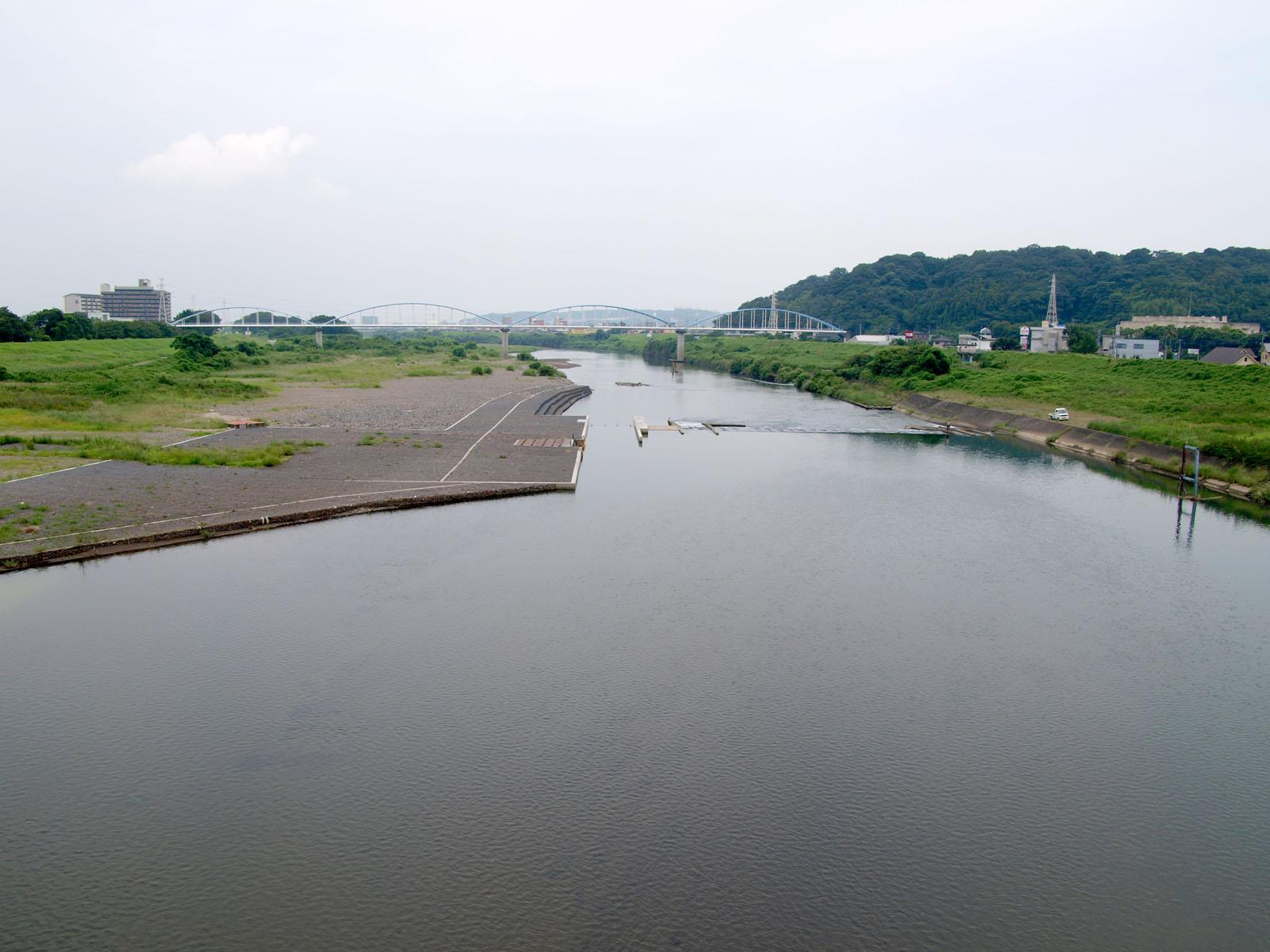 Ota River viewed from Funai Ohashi Bridge, Oita City, Oita Pref., Japan